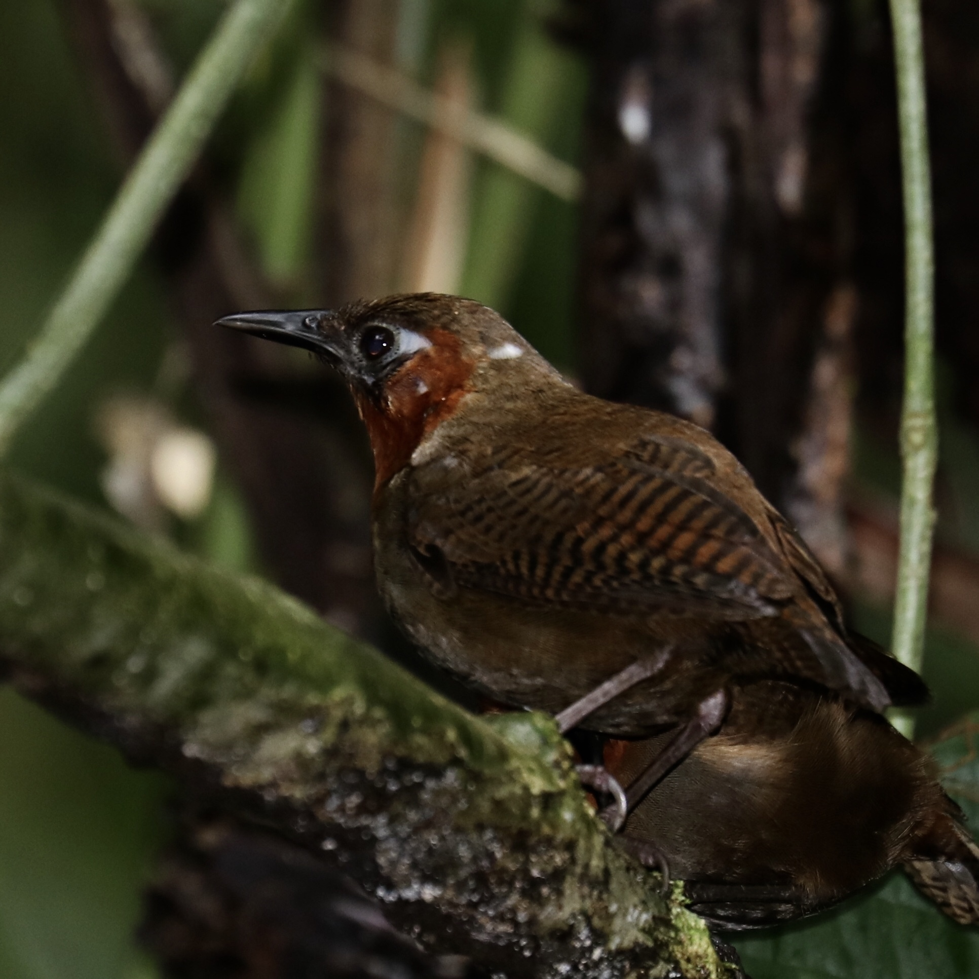 A Song Wren observed in Panamá in 2019, first uploaded to iNaturalist.